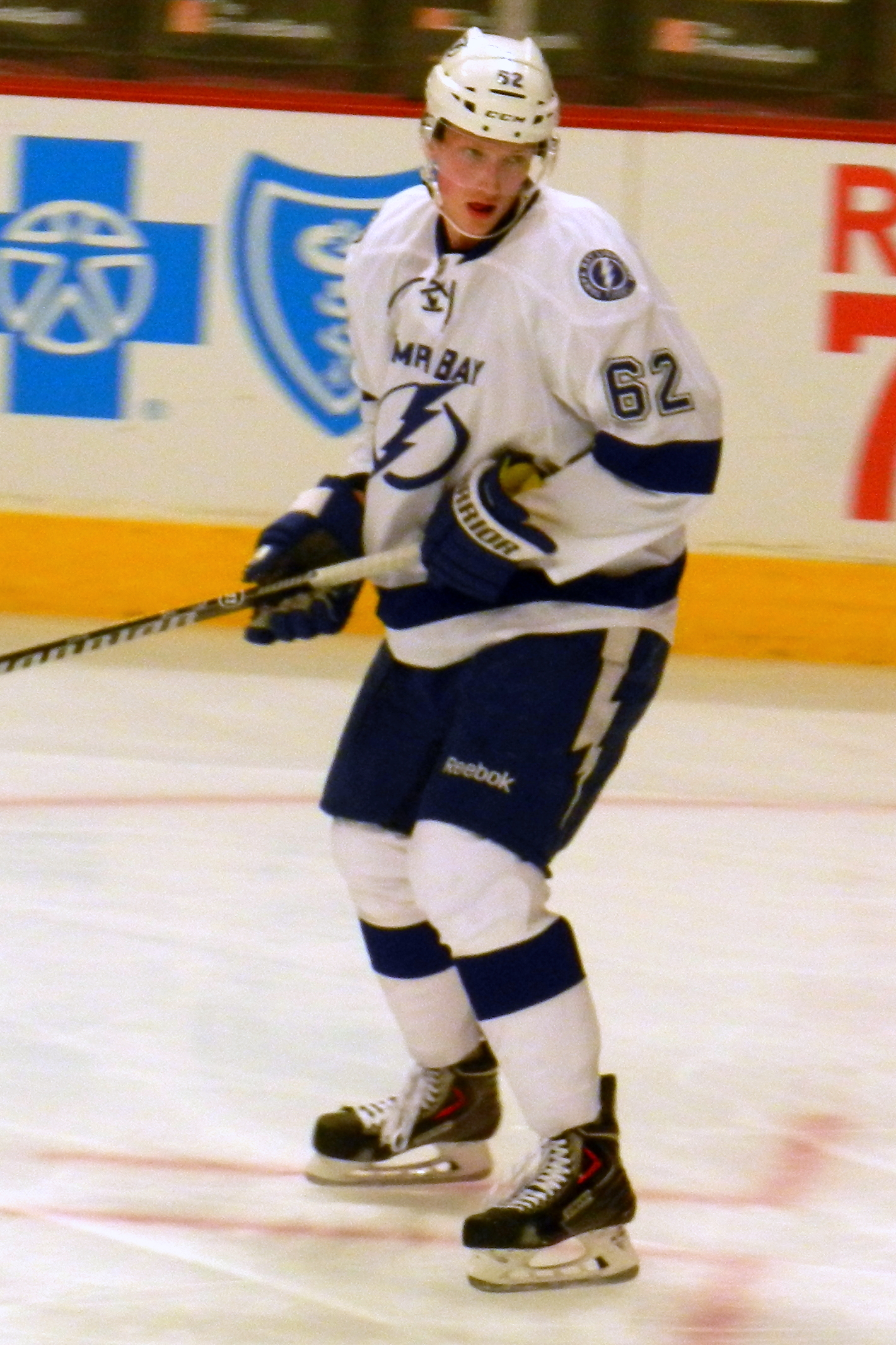 Andrej Sustr with the Tampa Bay Lightning during warm-up before a gamve vs. the Blackhawks at the United Center in Chicago